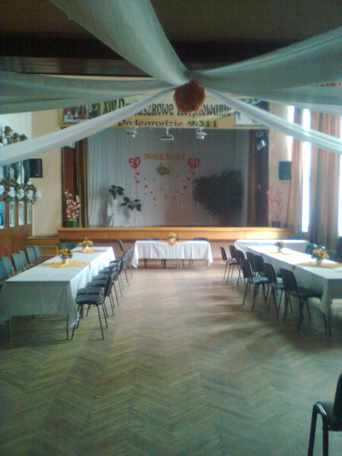 Auditorium in Community Centre in Podegrodzie